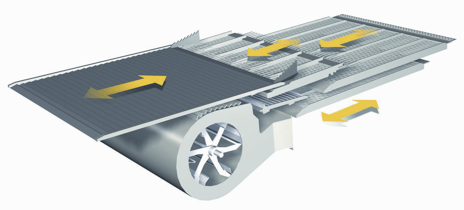 Opti-CleanShoe, model, used in New Holland combines